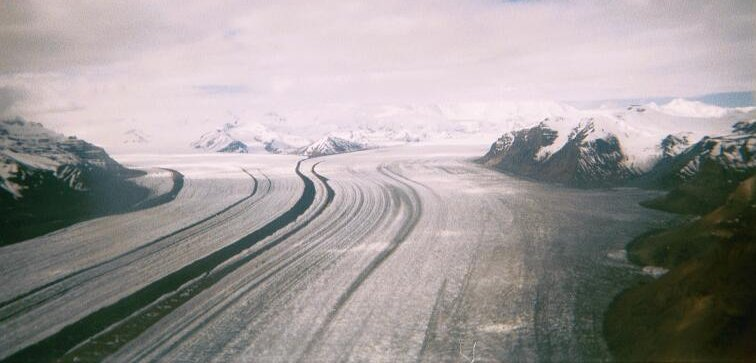 Nabesna Glacier, Wrangell-St. Elias National Park and Preserve, Alaska, USA. Photographed from small prop plane.